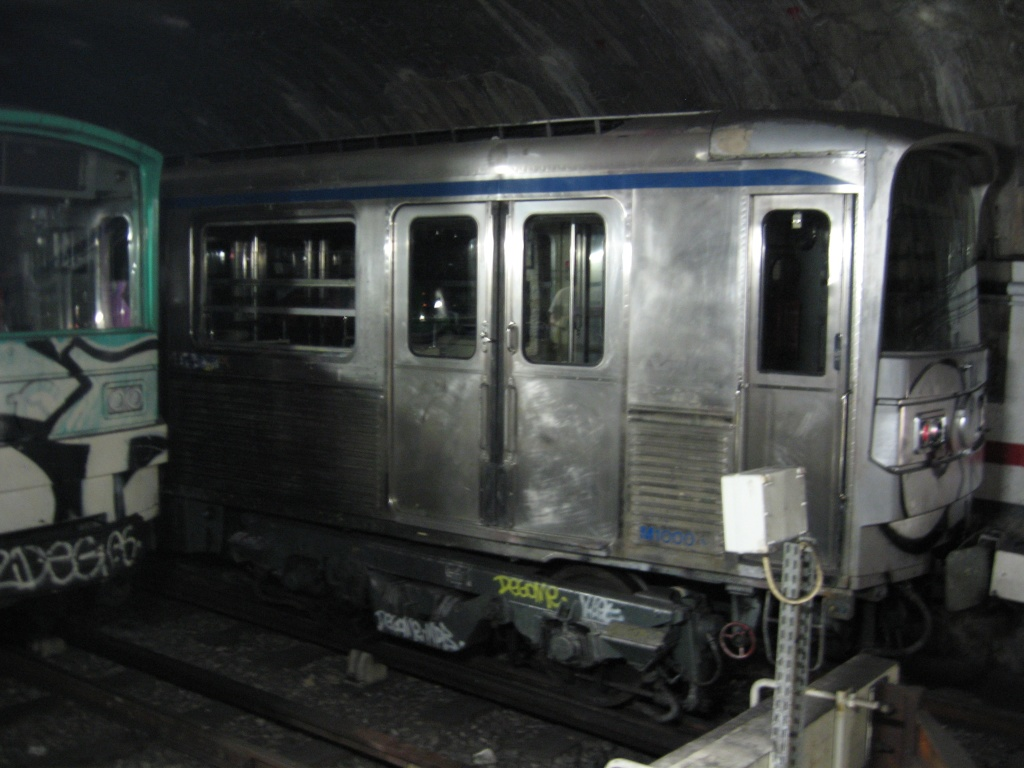 The Zébulon, prototype of the MF 67. Journées du Patrimoine RATP, 16 and 17 September 2006.